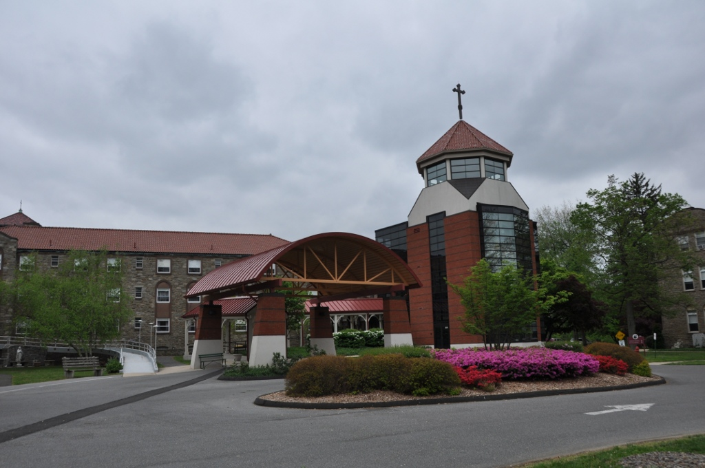 Entrance to the Katharine Drexel Shrine in Bensalem, PA.